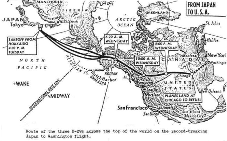 Map of the record-breaking flight from Japan to US, September 18–19, 1945, from Hokkaidō to Chicago, continuing to Washington, D.C. Drawn by serving US airman.